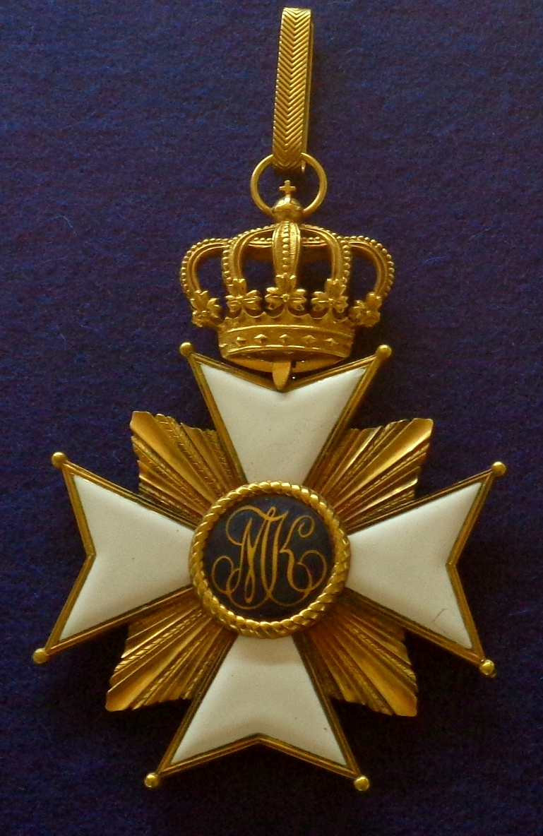 Military Order of Max Joseph, badge of Grand Cross. Kingdom of Bavaria. The exhibition of the Tallinn Museum of Orders of Knighthood, Estonia.